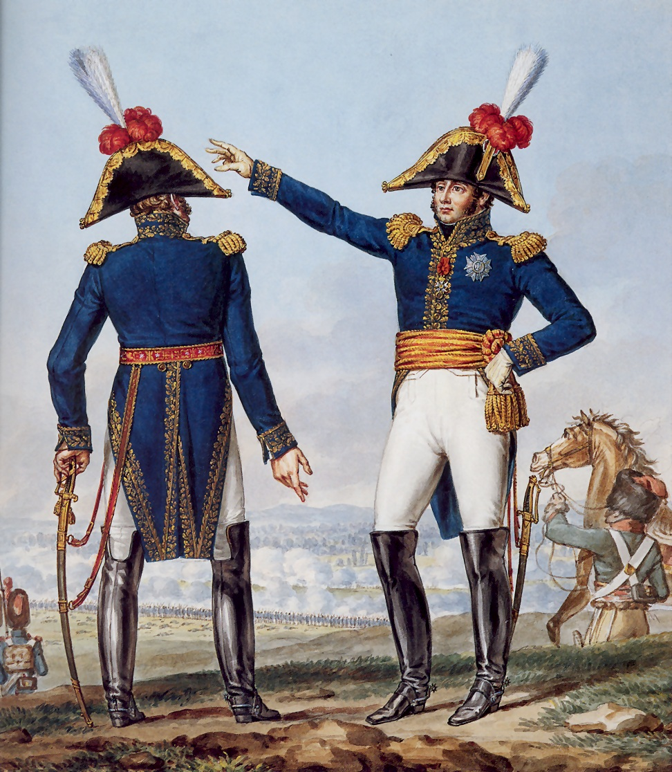 Part of a series chronicling the uniforms of Napoleon's Grande Armée.